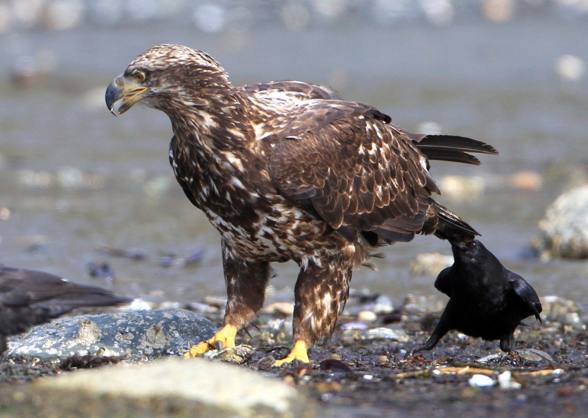 American (or Northwestern) Crow (Corvus brachyrhynchos) pulling the tail feathers of a immature Bald Eagle (Haliaeetus leucocephalus); Delta (British Columbia), Canada.